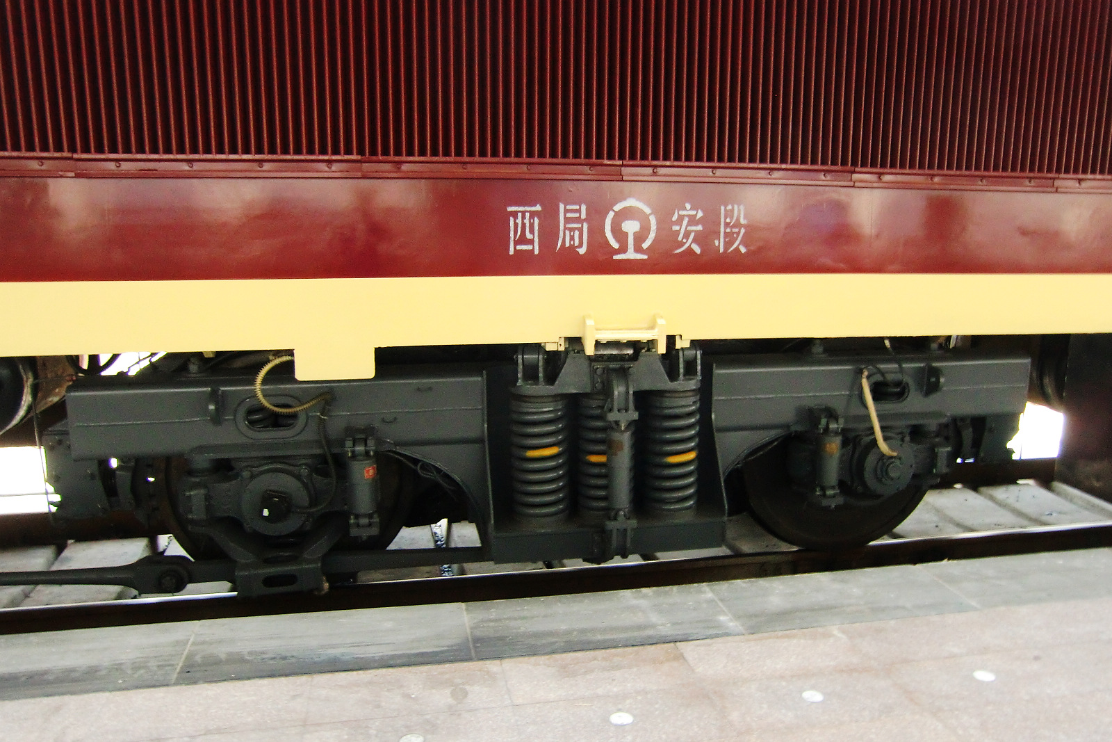 The middle bogie of a China Railways SS7C electric locomotive